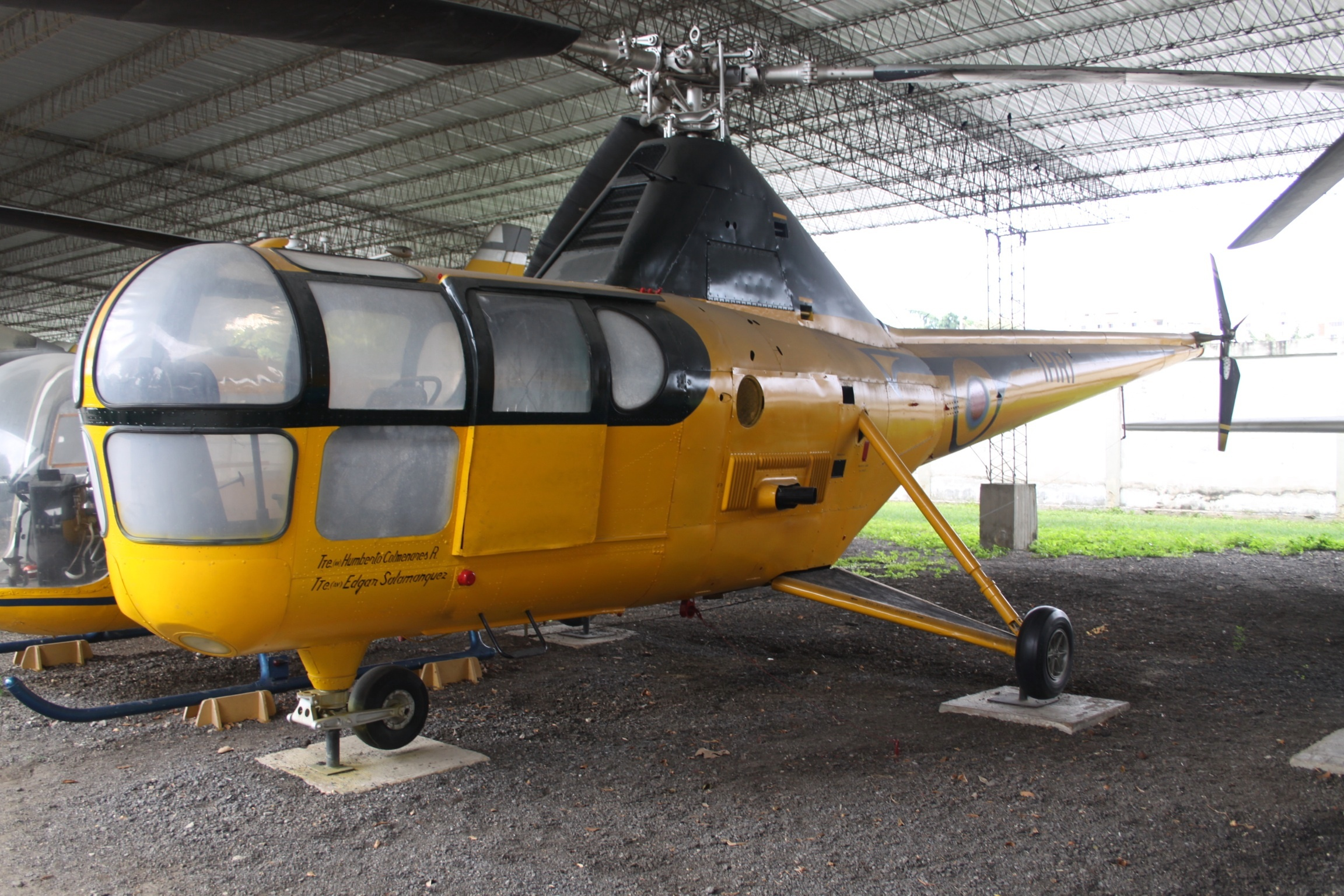 At Museo Aeronáutico de Maracay